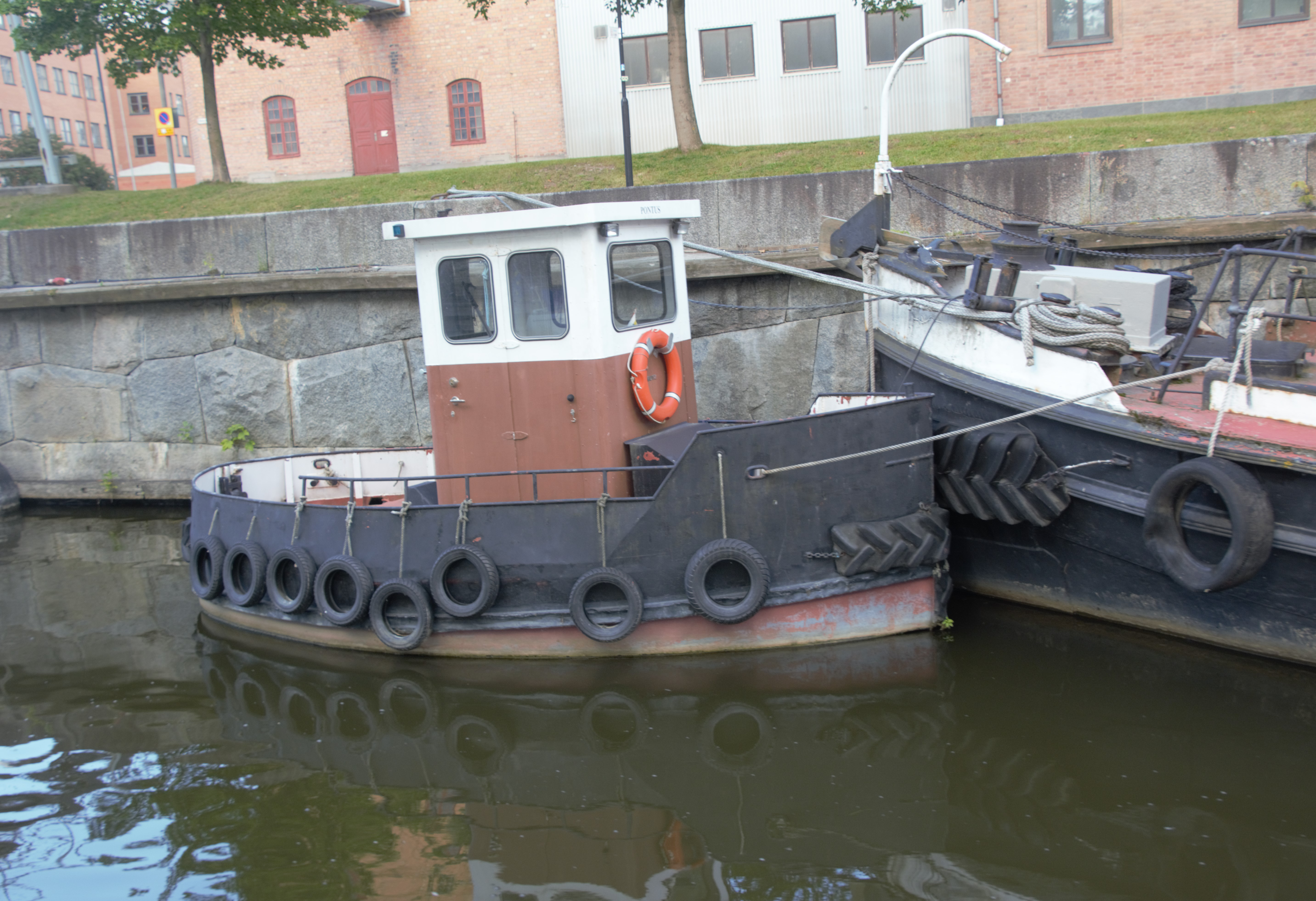 Tug boat Pontus, Uppsala